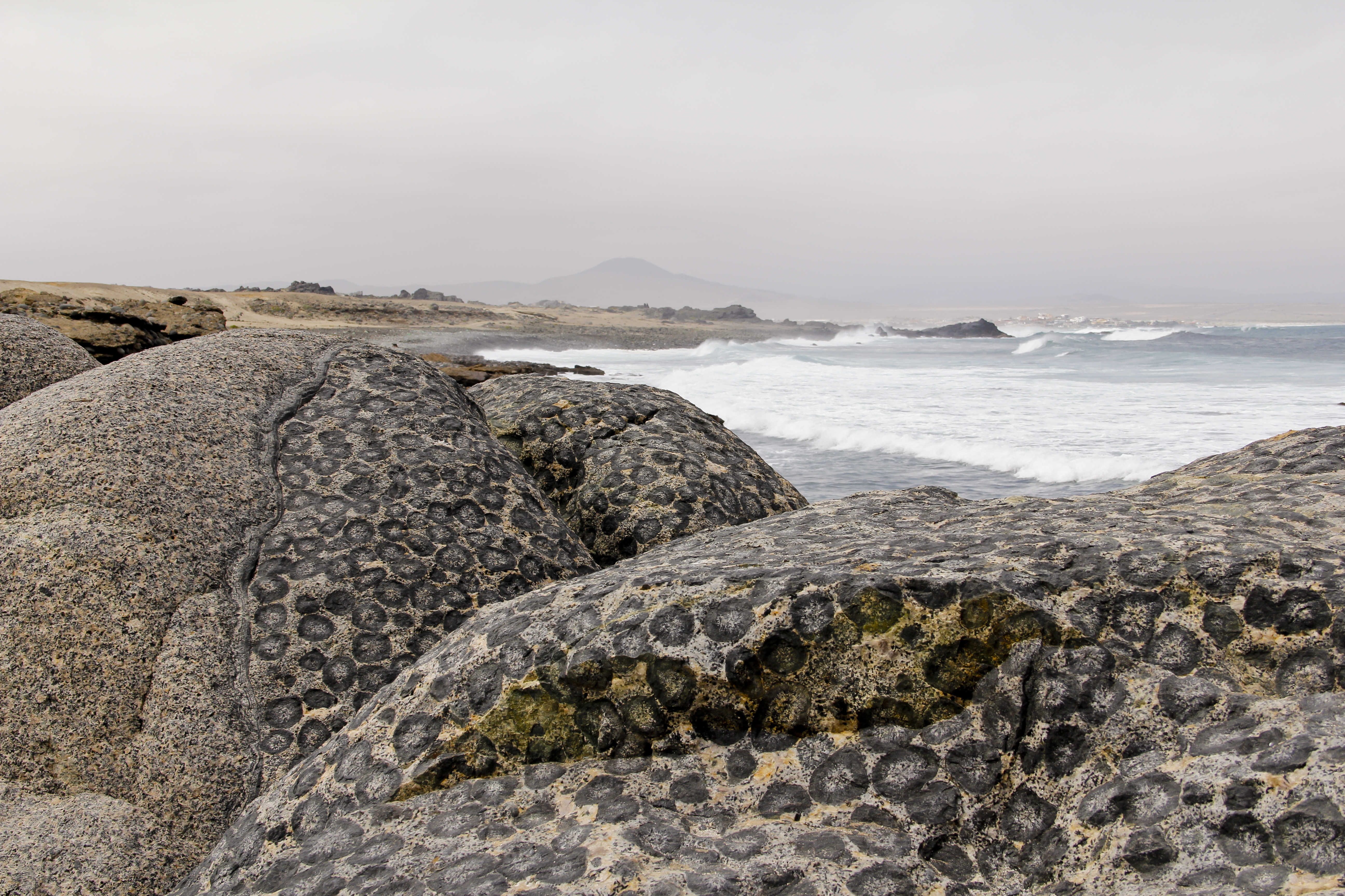 Outcrop of orbicular granite — in the Orbicular Granite Nature Sanctuary. A National monument in the Atacama Region, near Caldera, Chile.